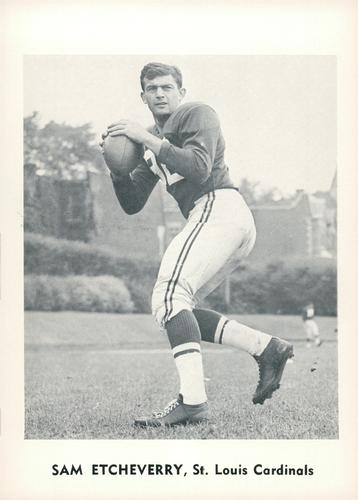 A promotional image of St. Louis Cardinals American football player Sam Etcheverry.